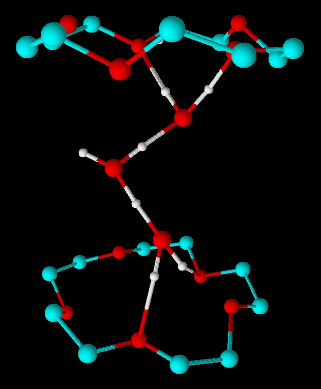 Structure of the complex between the oxonium ion H7O3+ and 15-crown-5